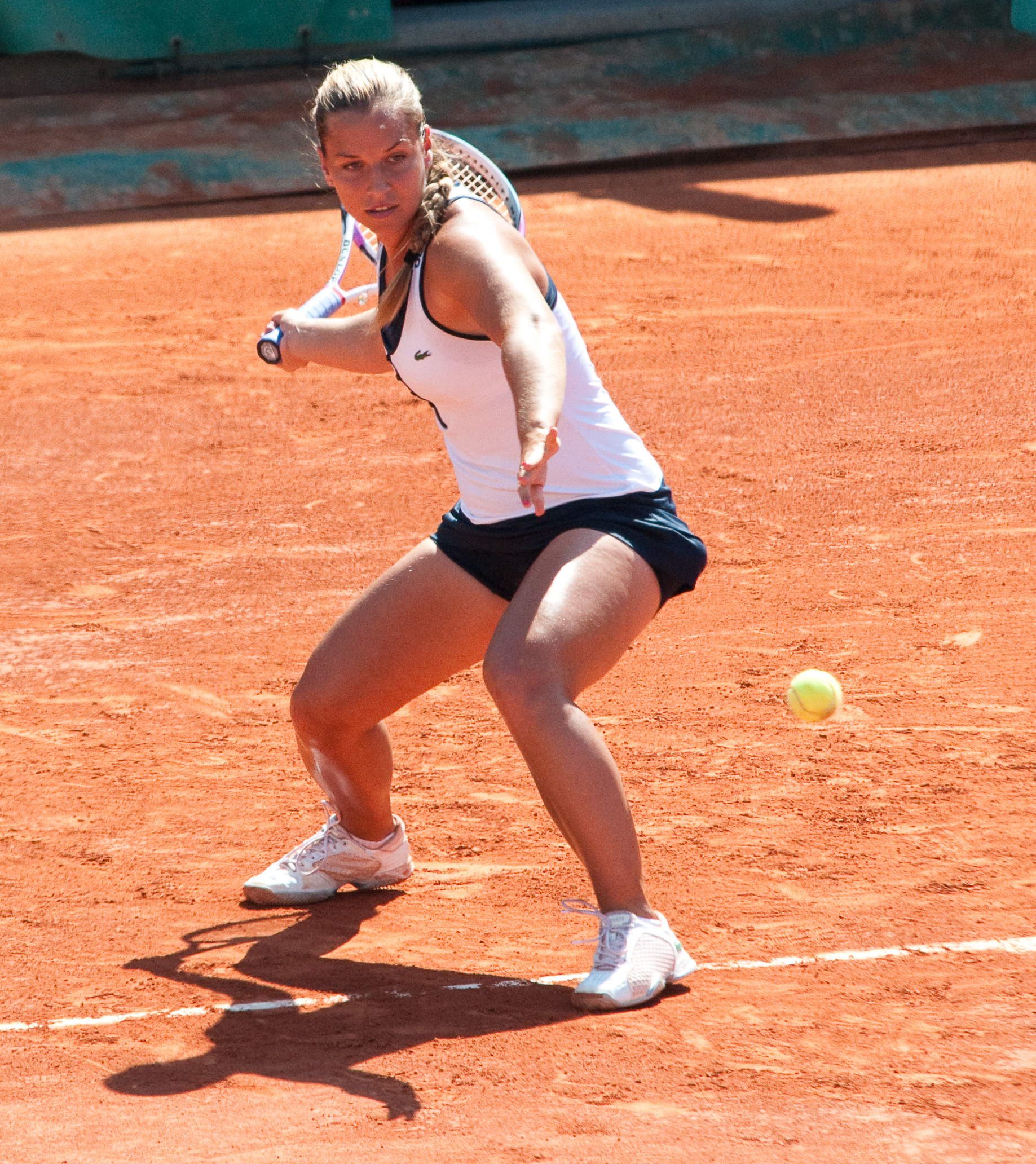 Dominika Cibulková at 2009 Roland Garros, Paris, France